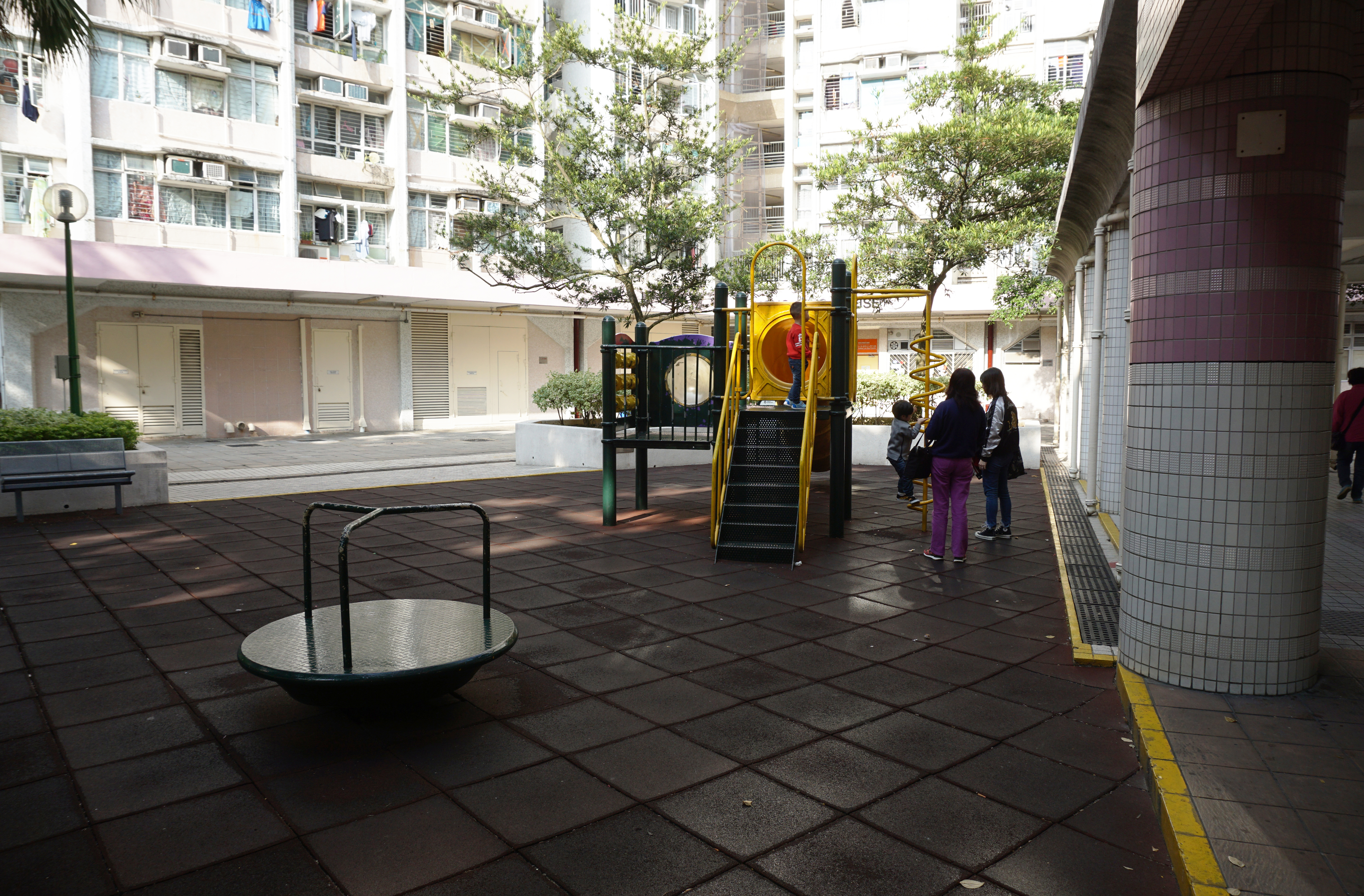 Wah Ming Estate in Fanling, Hong Kong.